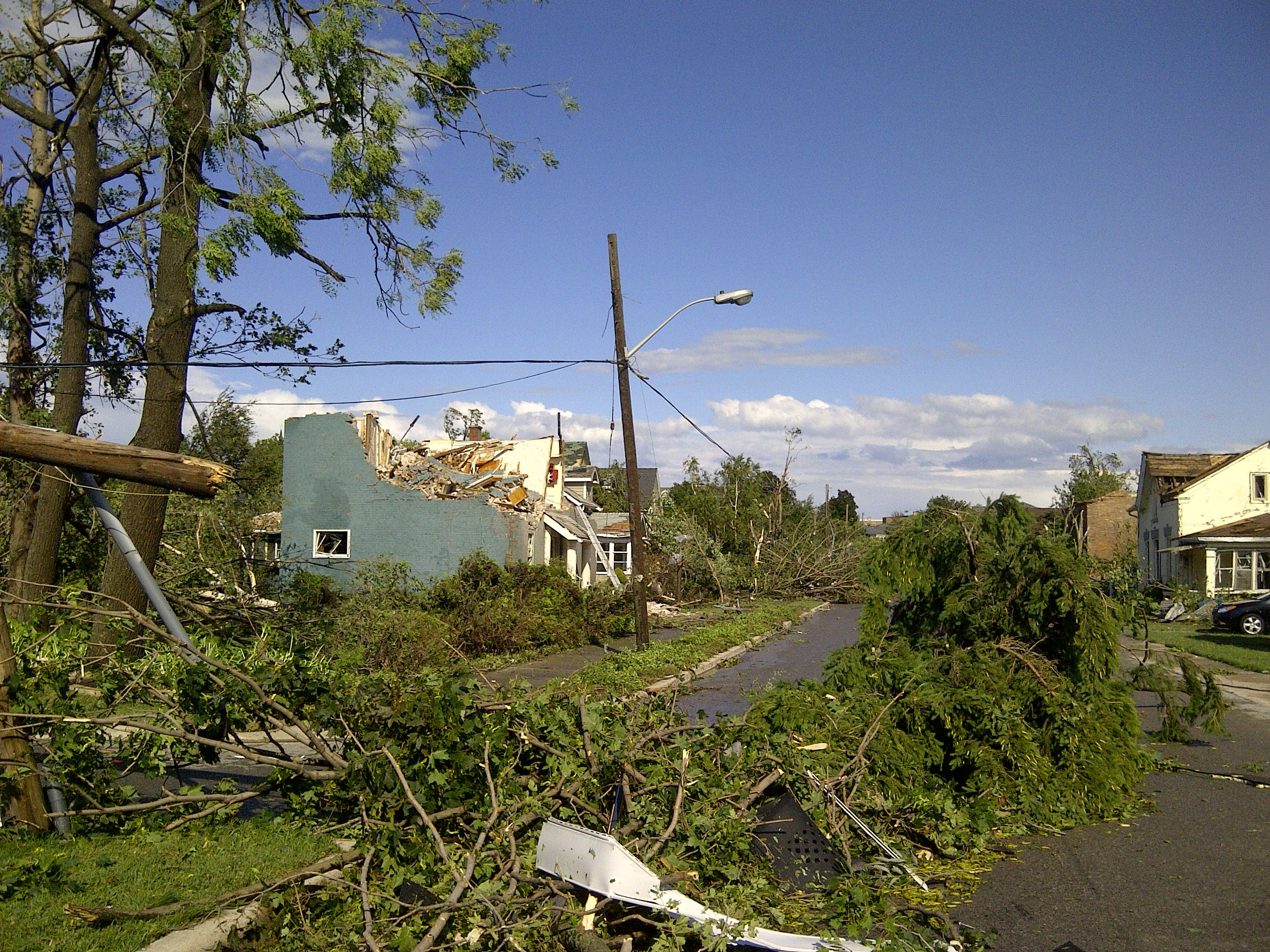 A road in Goderich, Ontario, Canada after a tornado. Taken on 21 August 2011.